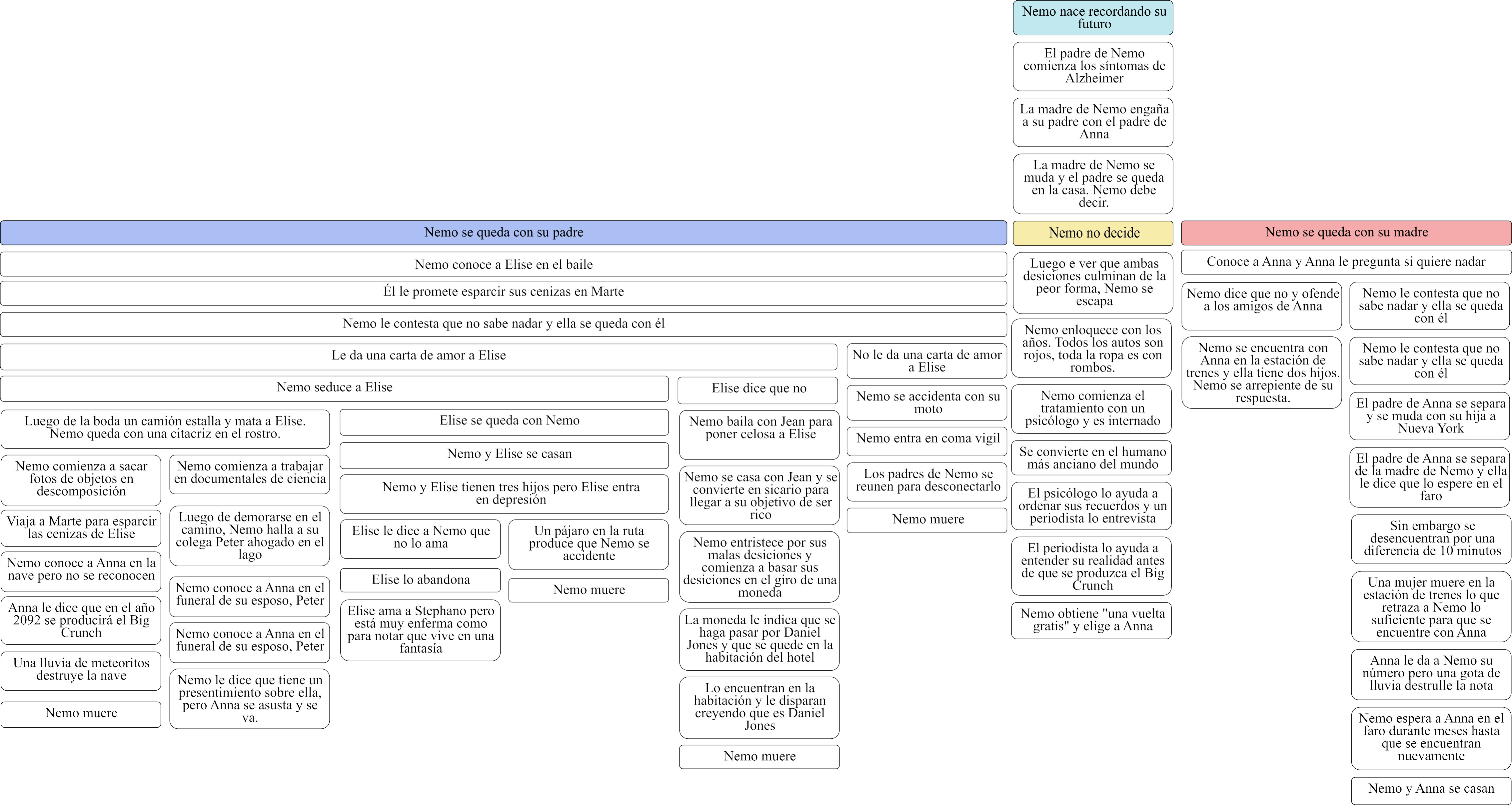 possibles options of Nemo, in Mr. Nobody